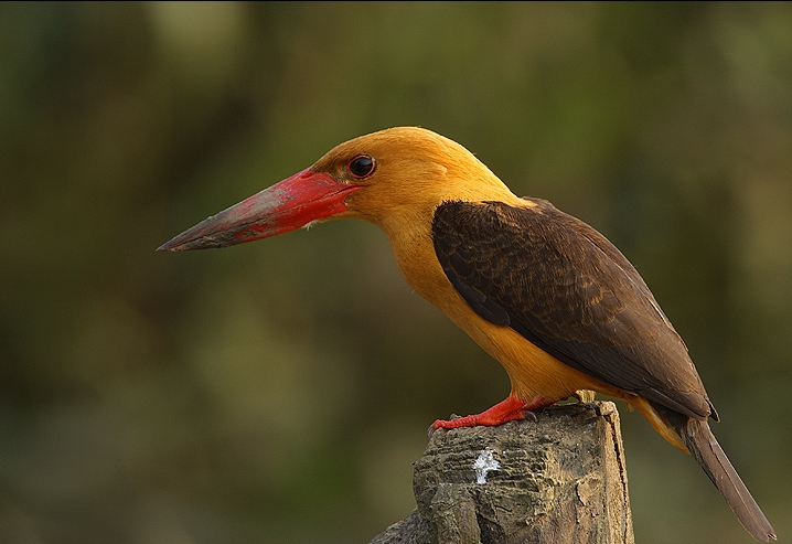 Brown Winged Kingfisher (Pelargopsis amauroptera) Bhitarkanika National Park, Orissa. India